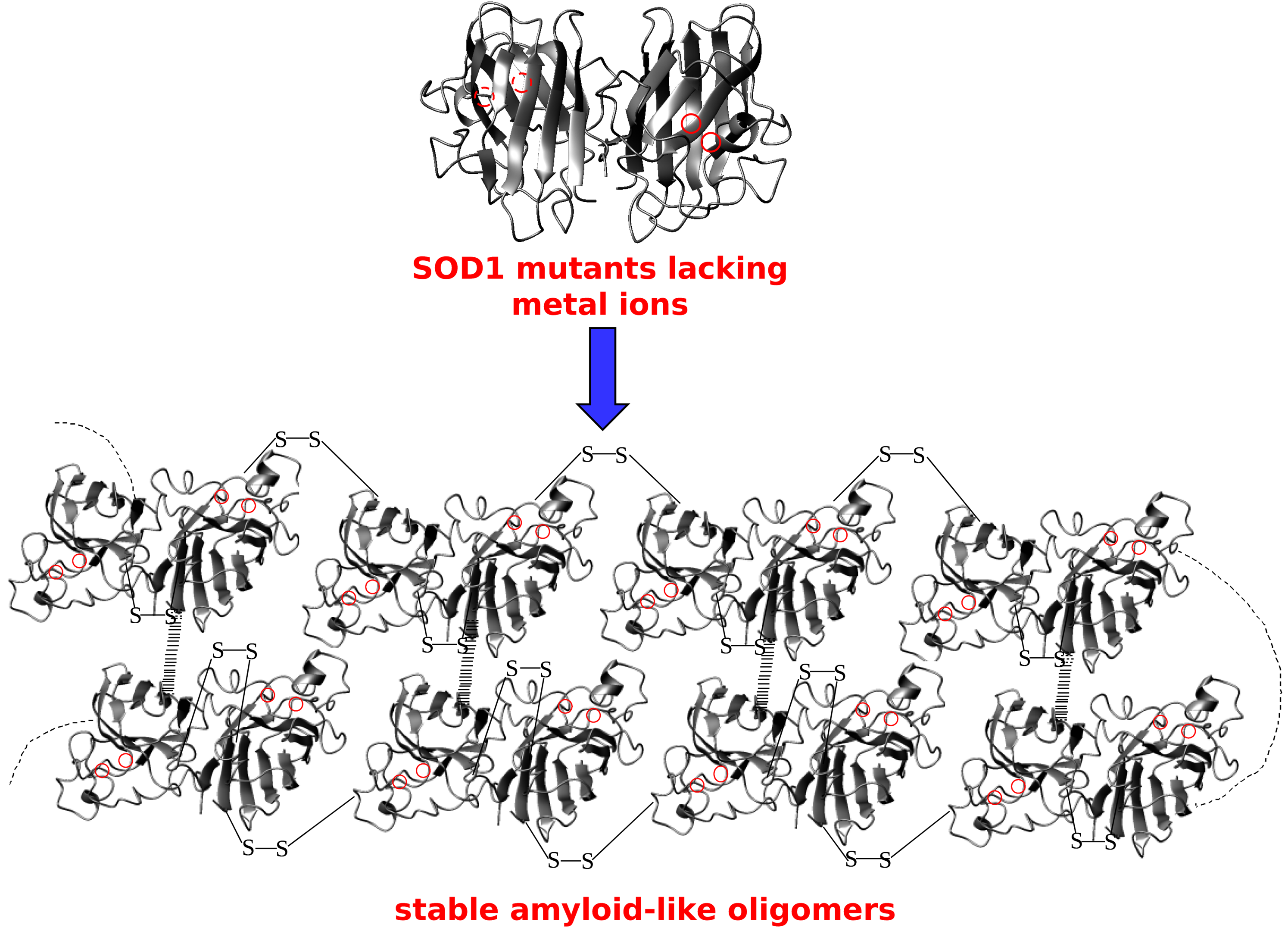 Formation of soluble oligomers occuring when apo WT SOD1 protein is kept close to physiological conditions for an extended period of time. In the absence of metal ions, SOD1 proteins form abnormal disulfide cross-links though the two free cysteines (Cys 6 and Cys 111) and noncovalent associations with other SOD1 monomers or dimers.